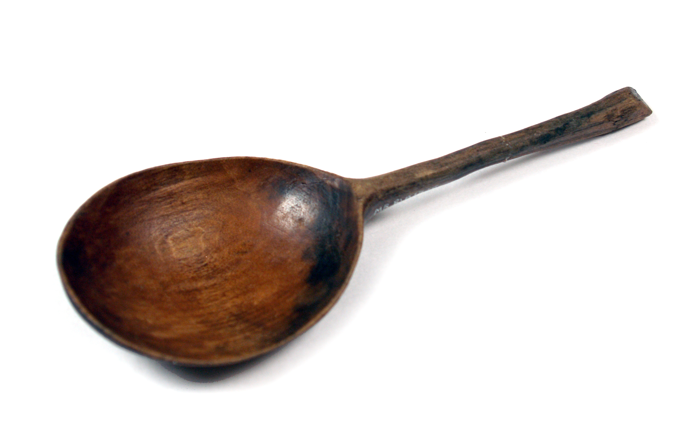 Wooden spoon found on board the 16th century carrack Mary Rose.